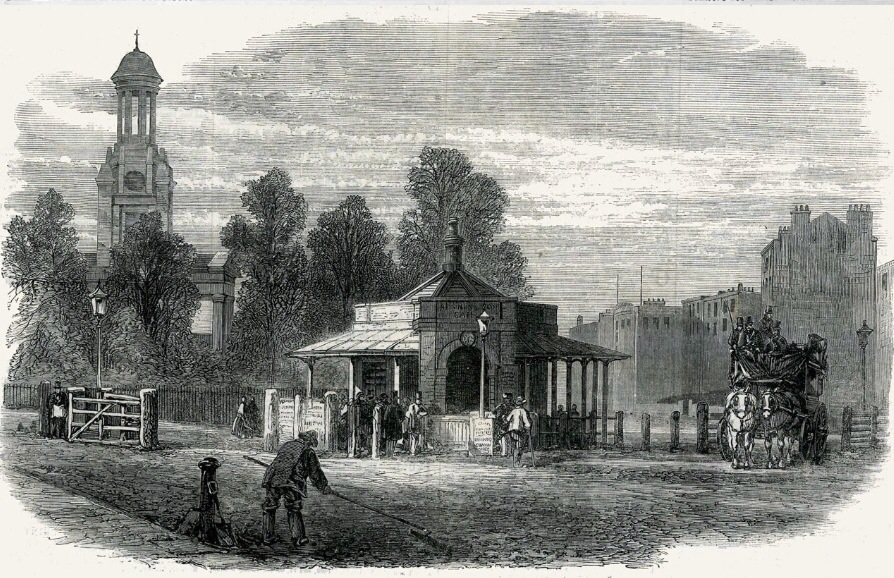 A sketch of Kennington Road, London in around 1860.